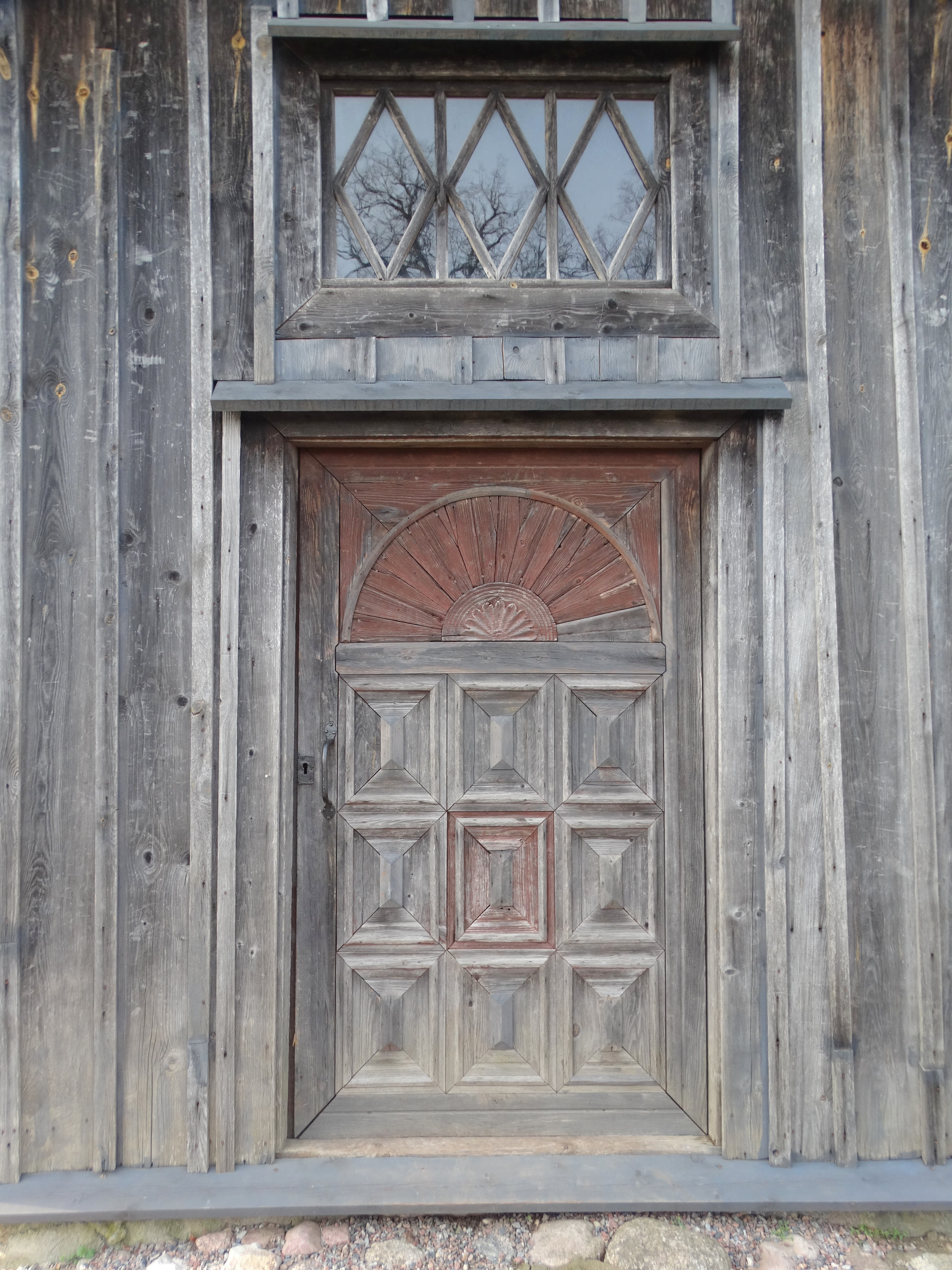 Grūšlaukė Cemetery Chapel, Kretinga, Lithuania